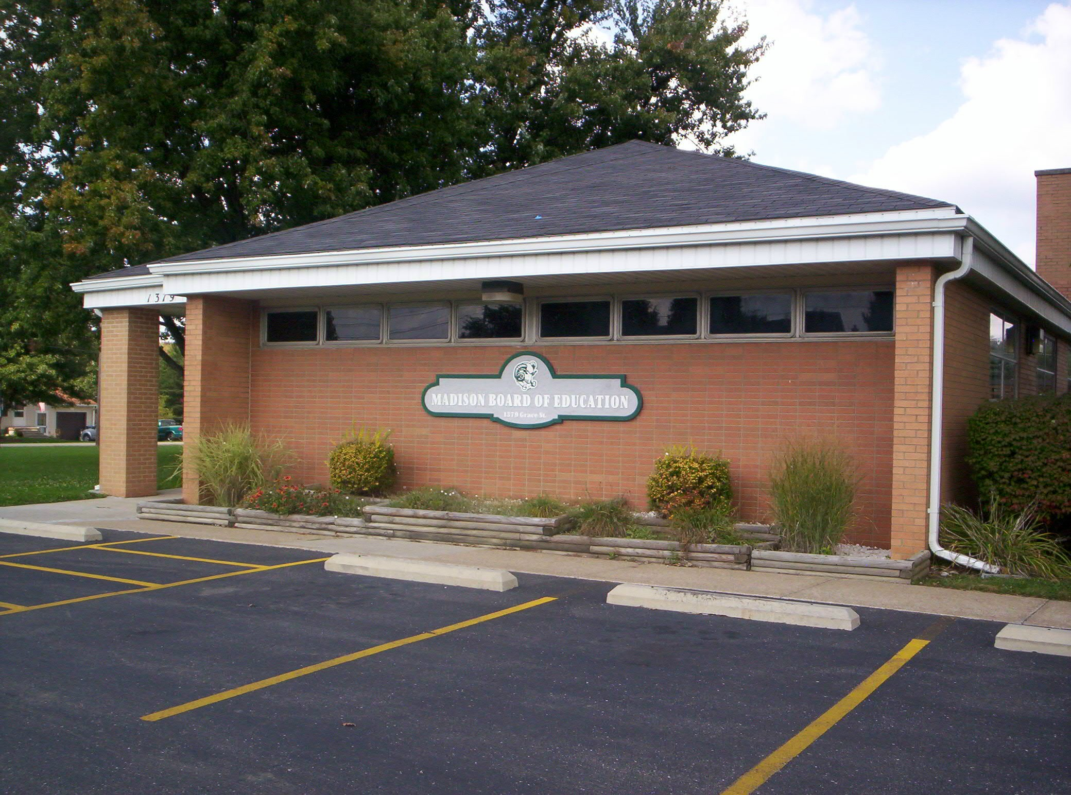 A view of the Madison Board of Education building in the Madison Local School District in Madison Township, Richland County, Ohio.